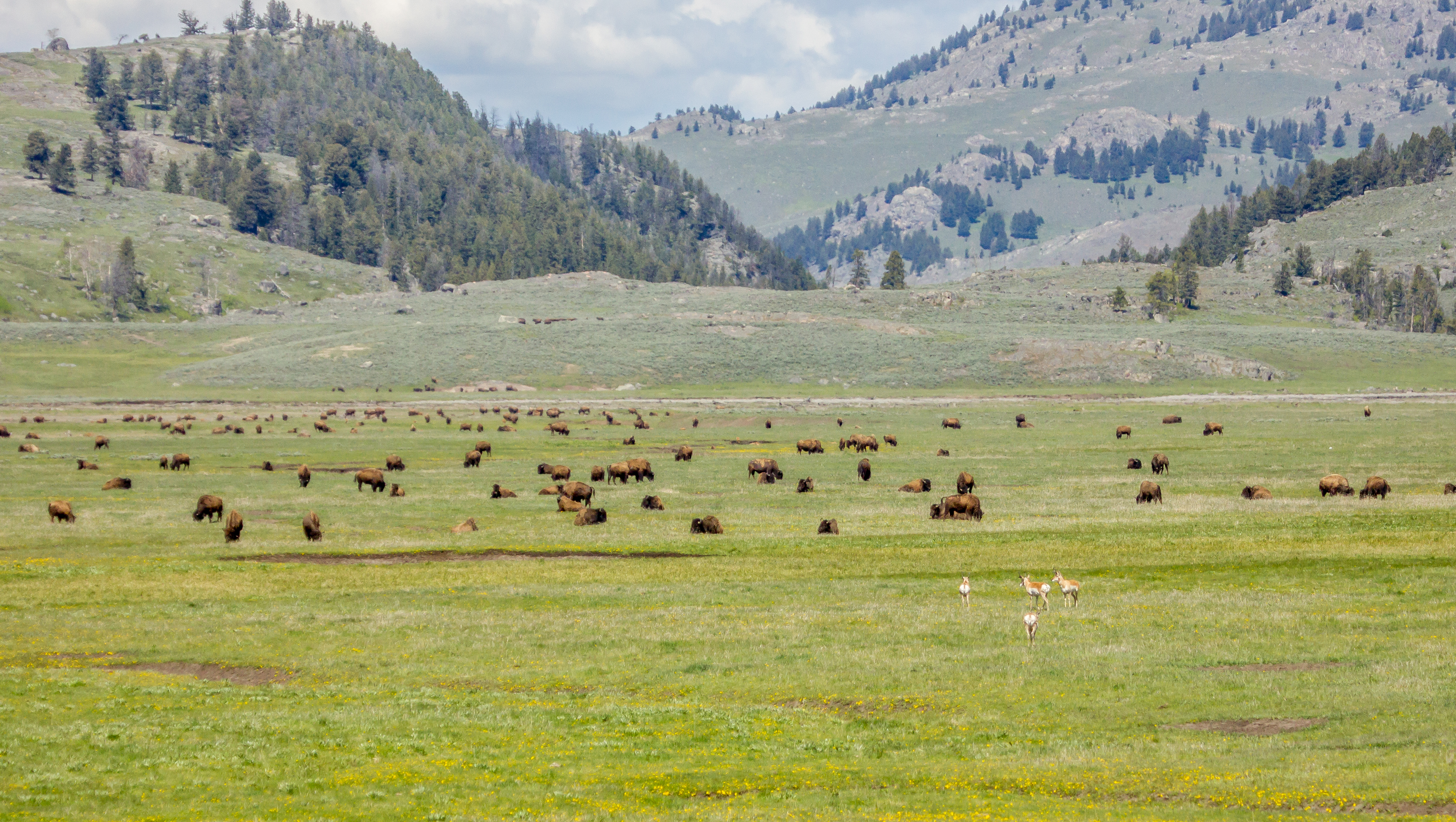 Bison and pronghorn in Lamar Valley; Diane Renkin; May 2016; Catalog #20598d; Original #IMG_0722-1-2